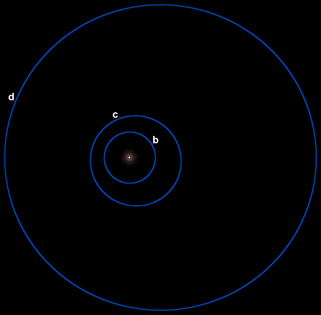 Orbits of Gliese 581, made with Celestia and GIMP.